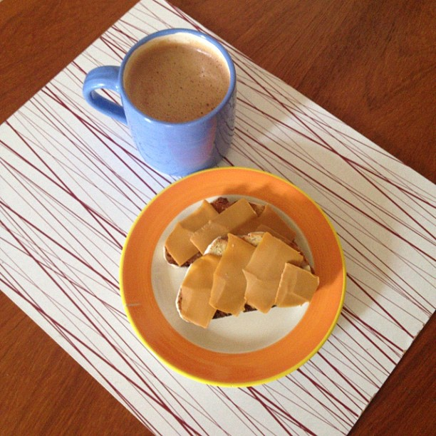 Two open sandwiches with slices of brown cheese and a mug of latte.